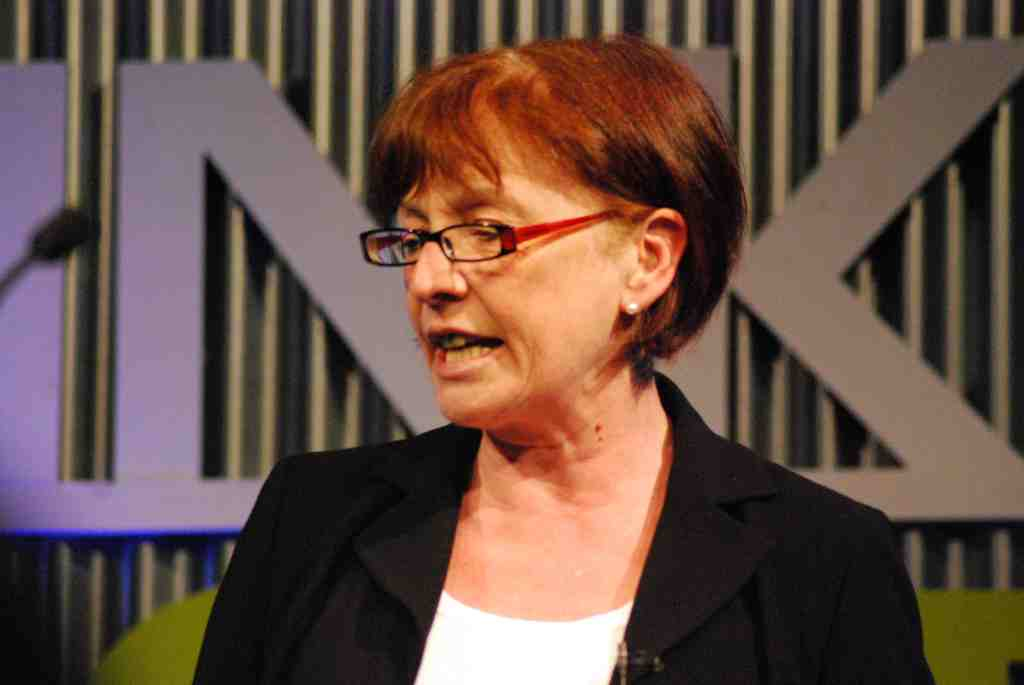 Pam Warhurst at the Thinking Digital 2012 conference in the Sage Gateshead